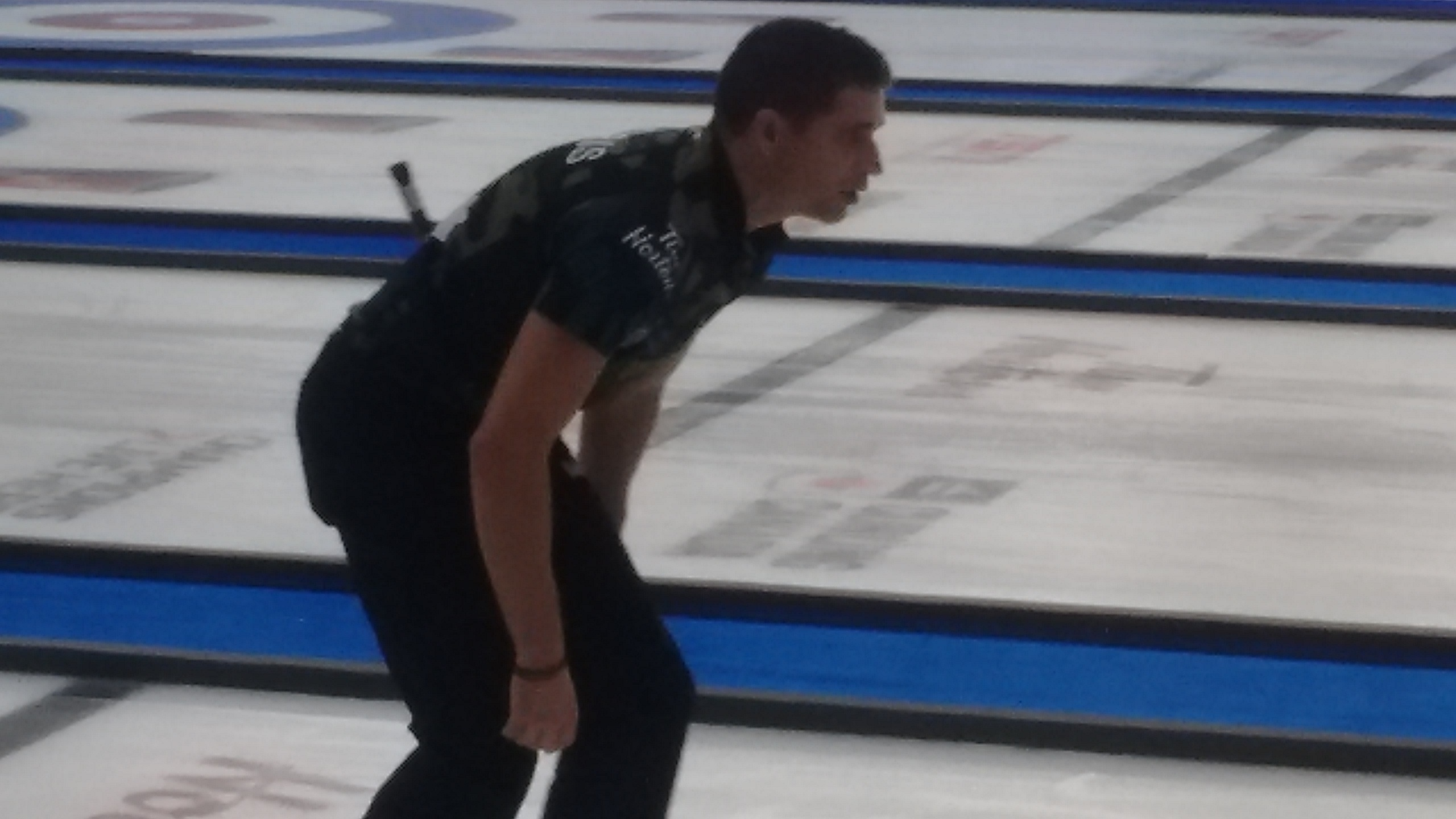 Picture of John Morris from the 2016 Brier